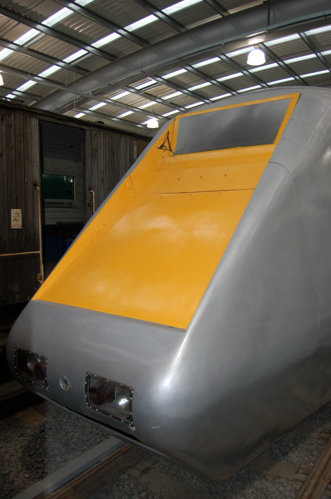 Photographer: Huw Pritchard (self) Location: Locomotion, Shildon, County Durham